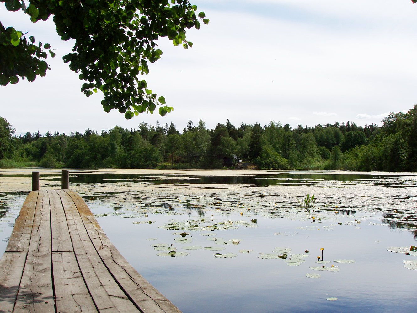 Lake "Stockby", Lidingö, june 2008.